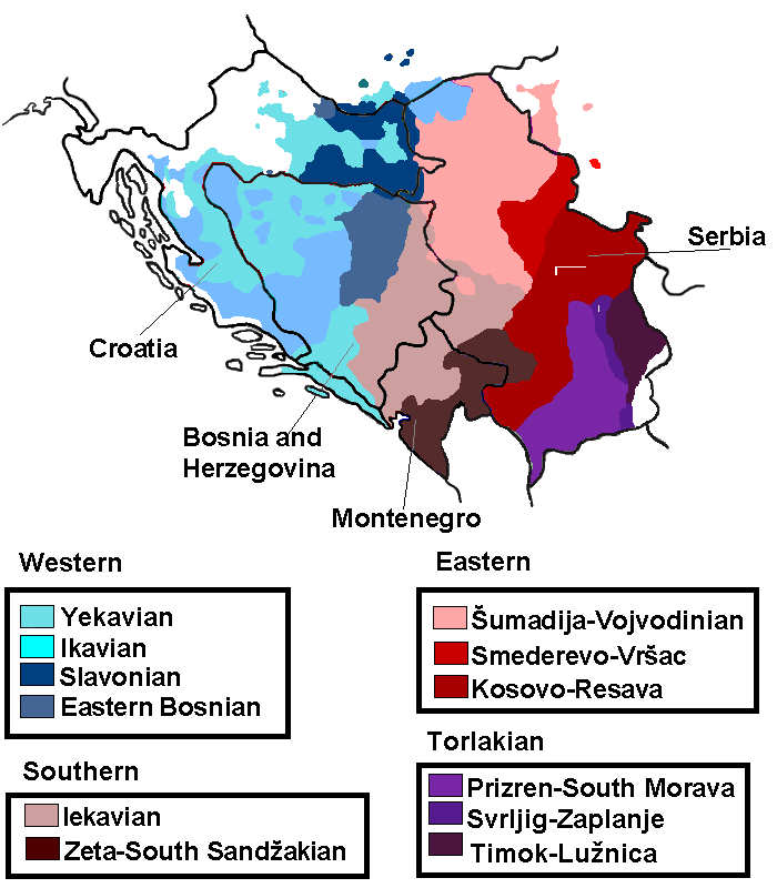 Map of subdiarects of Shtokavian dialect of Serbo-Croatian language